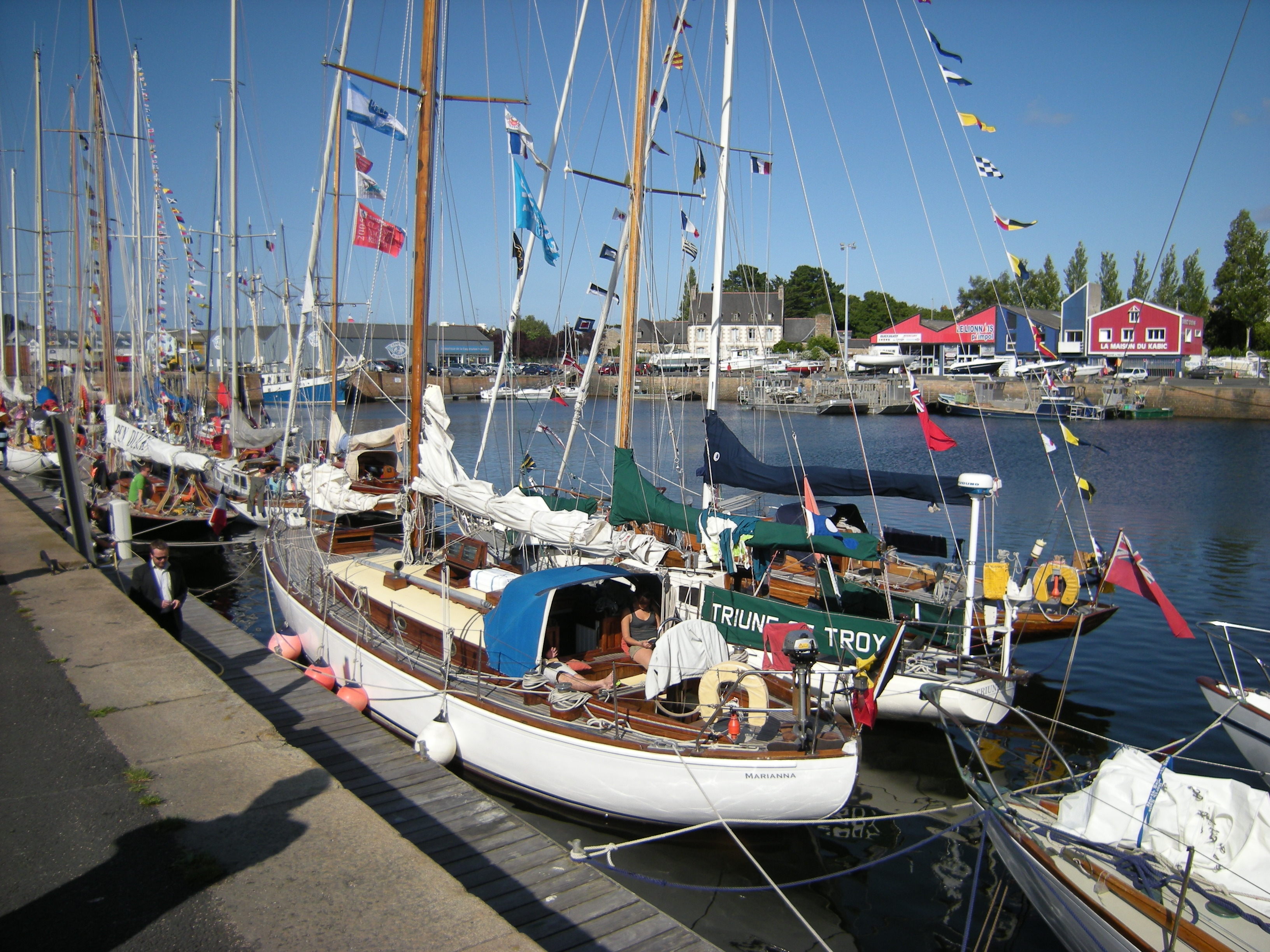 Classic Channel Regatta 2009, Paimpol